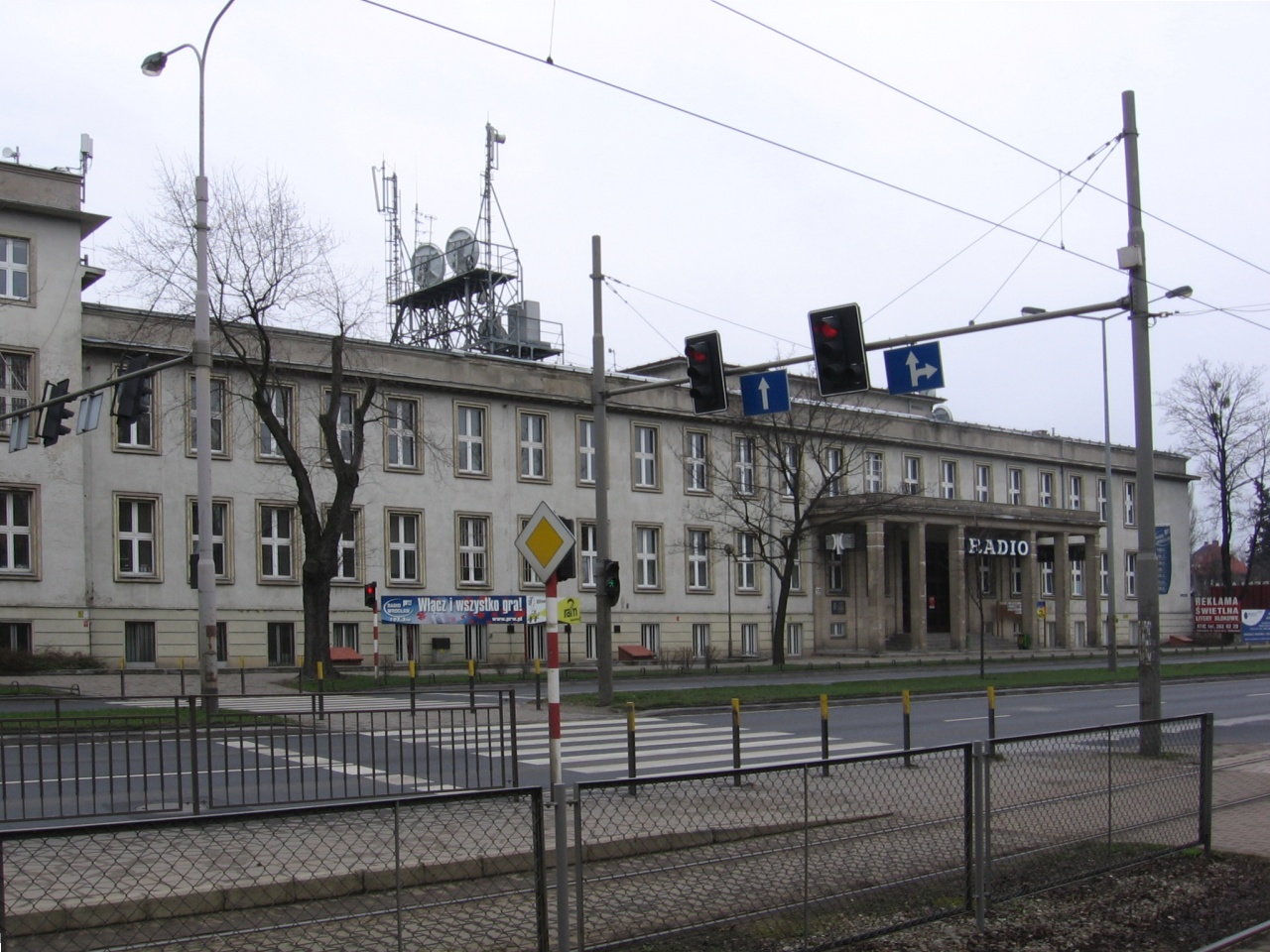 Wrocław, Poland Public broadcasting building, Karkonoska street